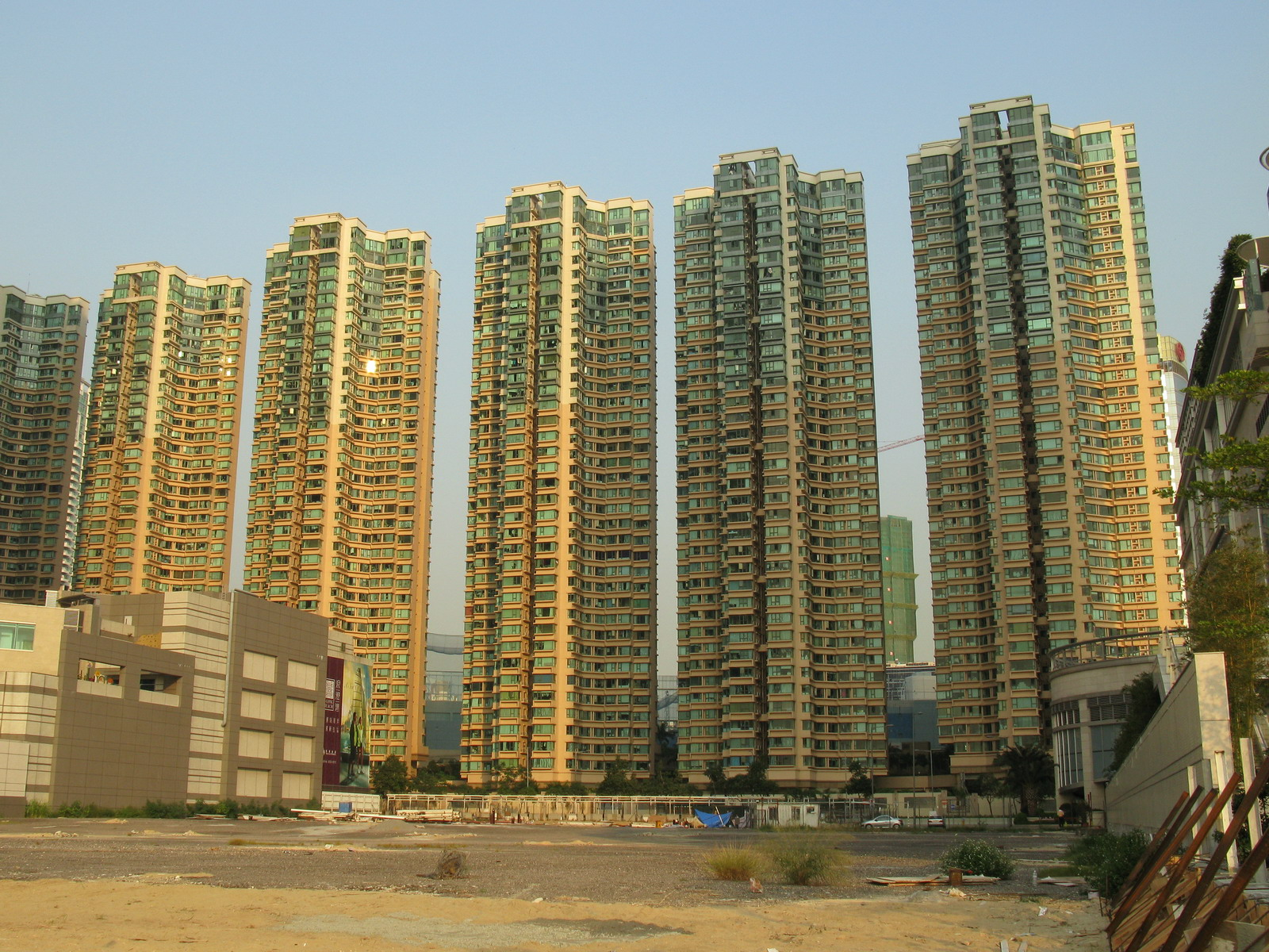 Hoi Fai Road KIL11146 (Imperial Cullinan) & Island Harbourview, Tai Kok Tsui